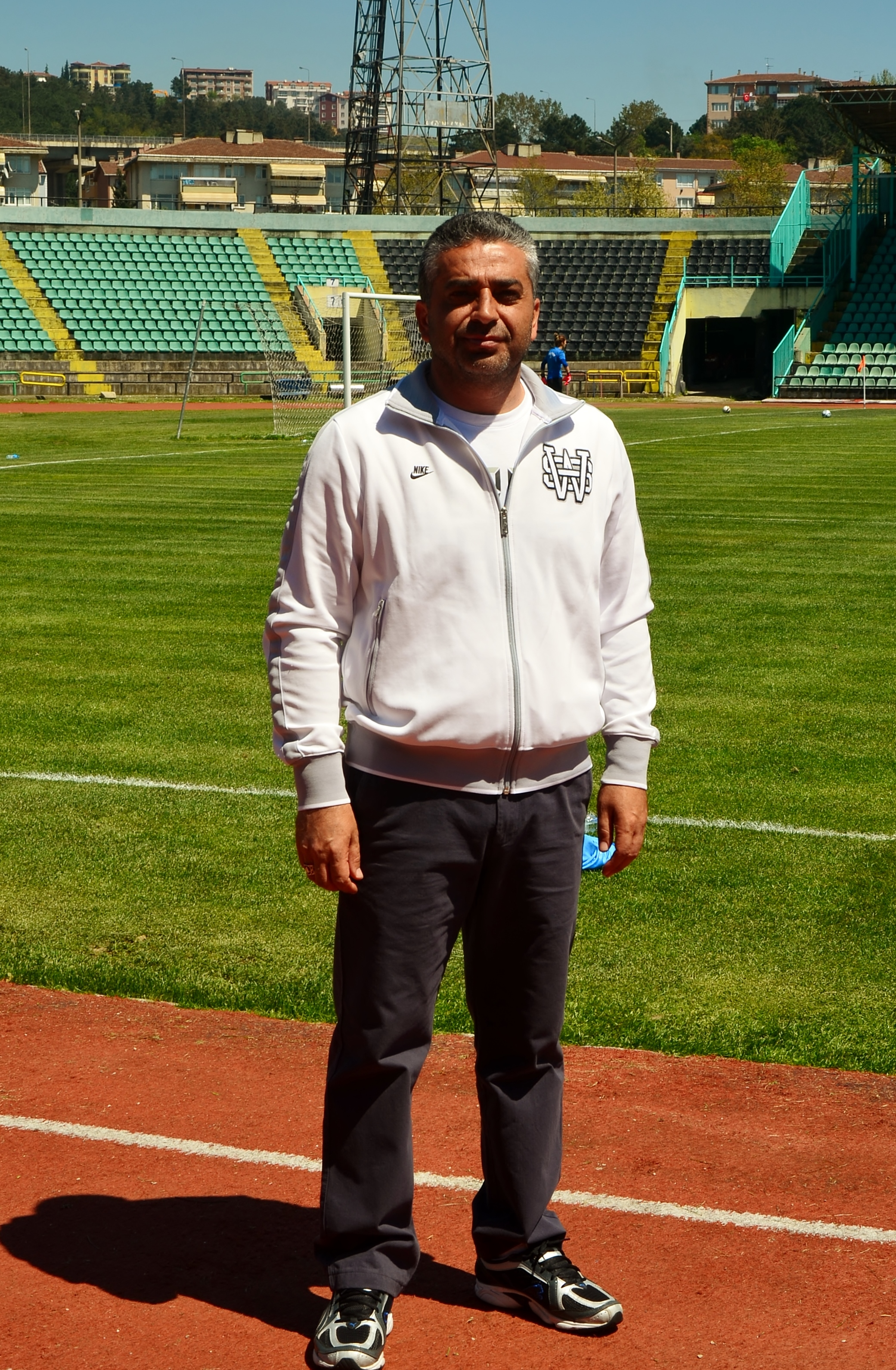 Hüsyin Tavur, manager of Konak Belediyespor (women) (2014-15 season)